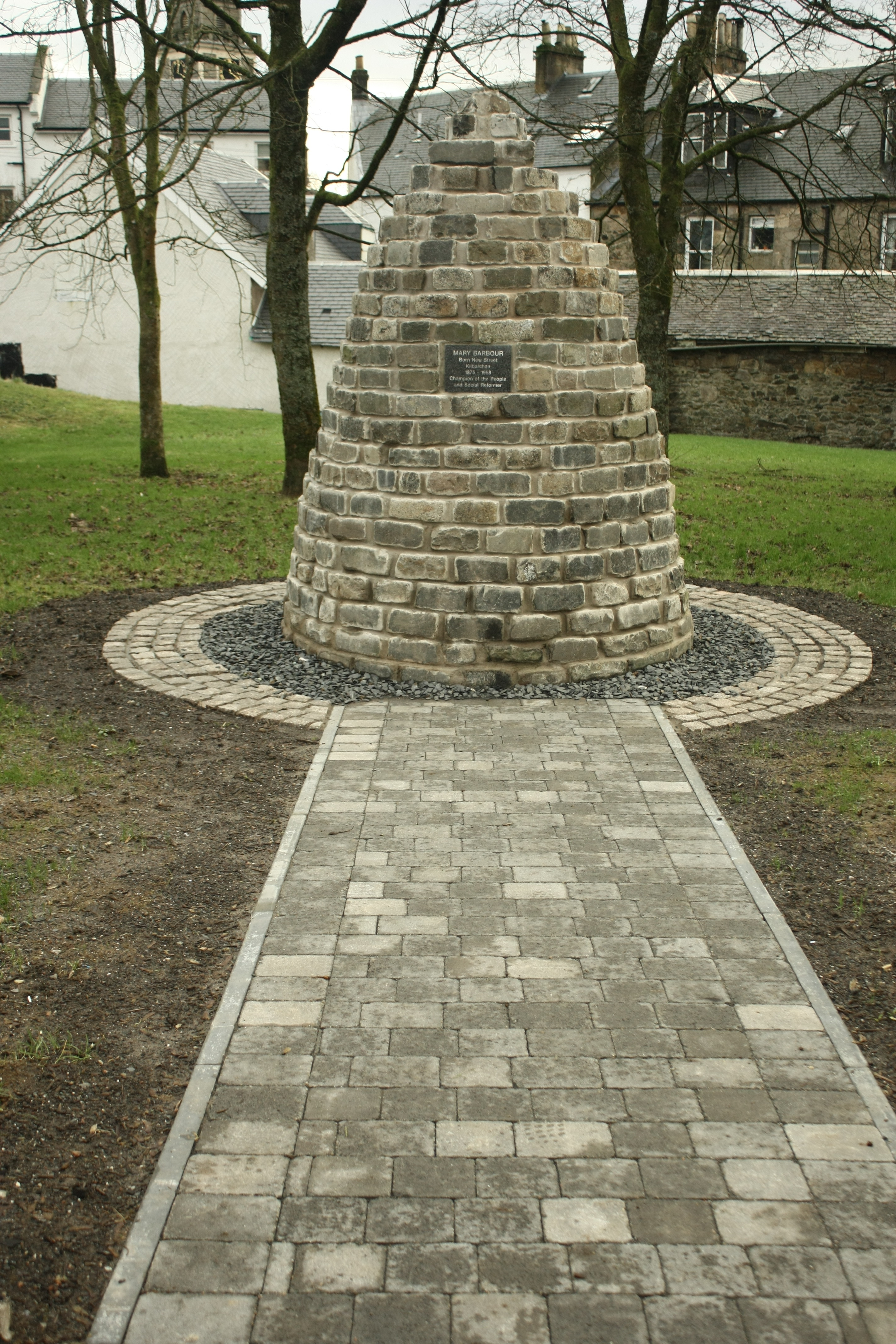 A cairn on New Street, Kilbarchan in the memory of Mary Barbour.